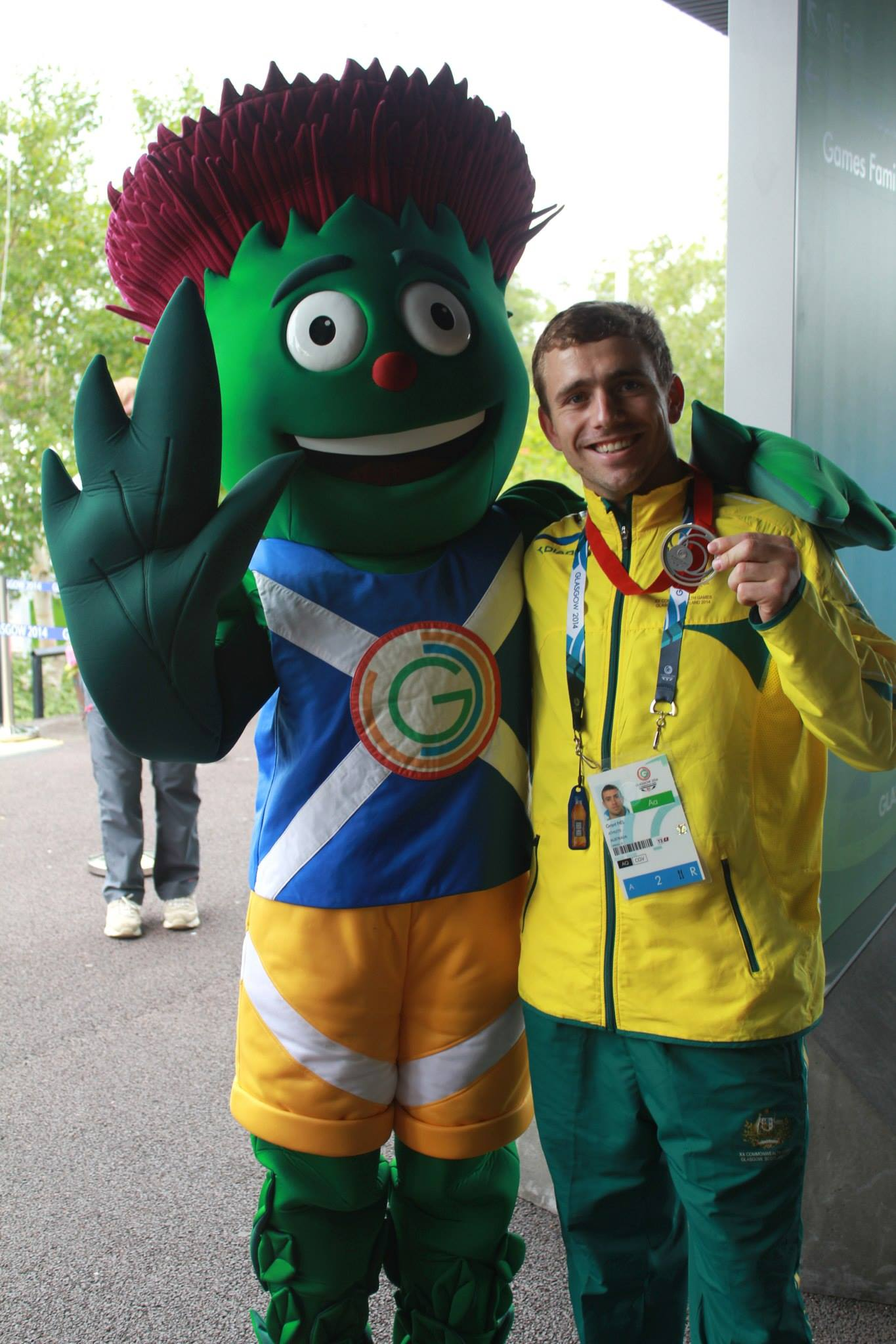 Grant Nel and Commonwealth Games 2014 Mascot in Edinburgh